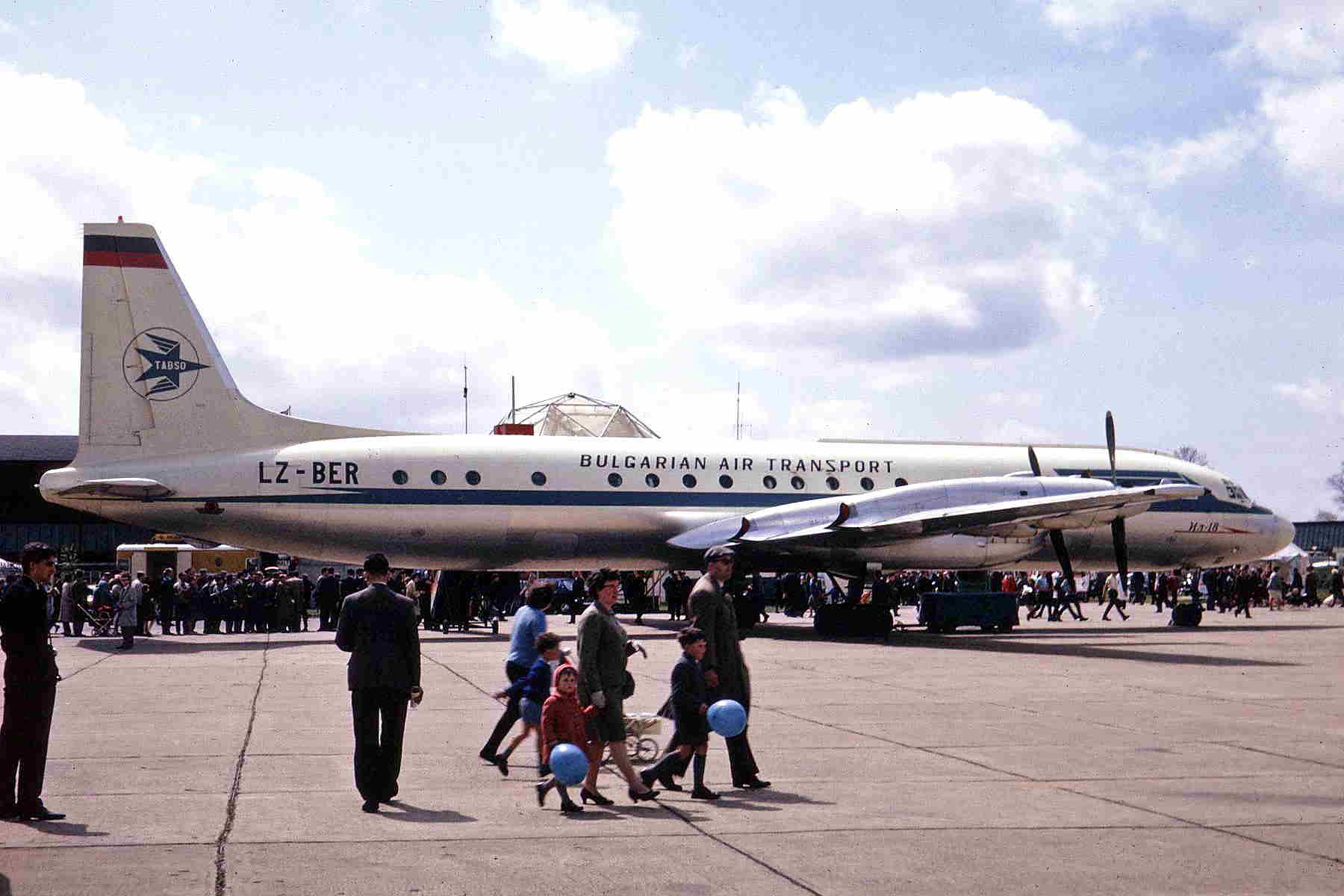 Biggin Hill Air Fair May-94